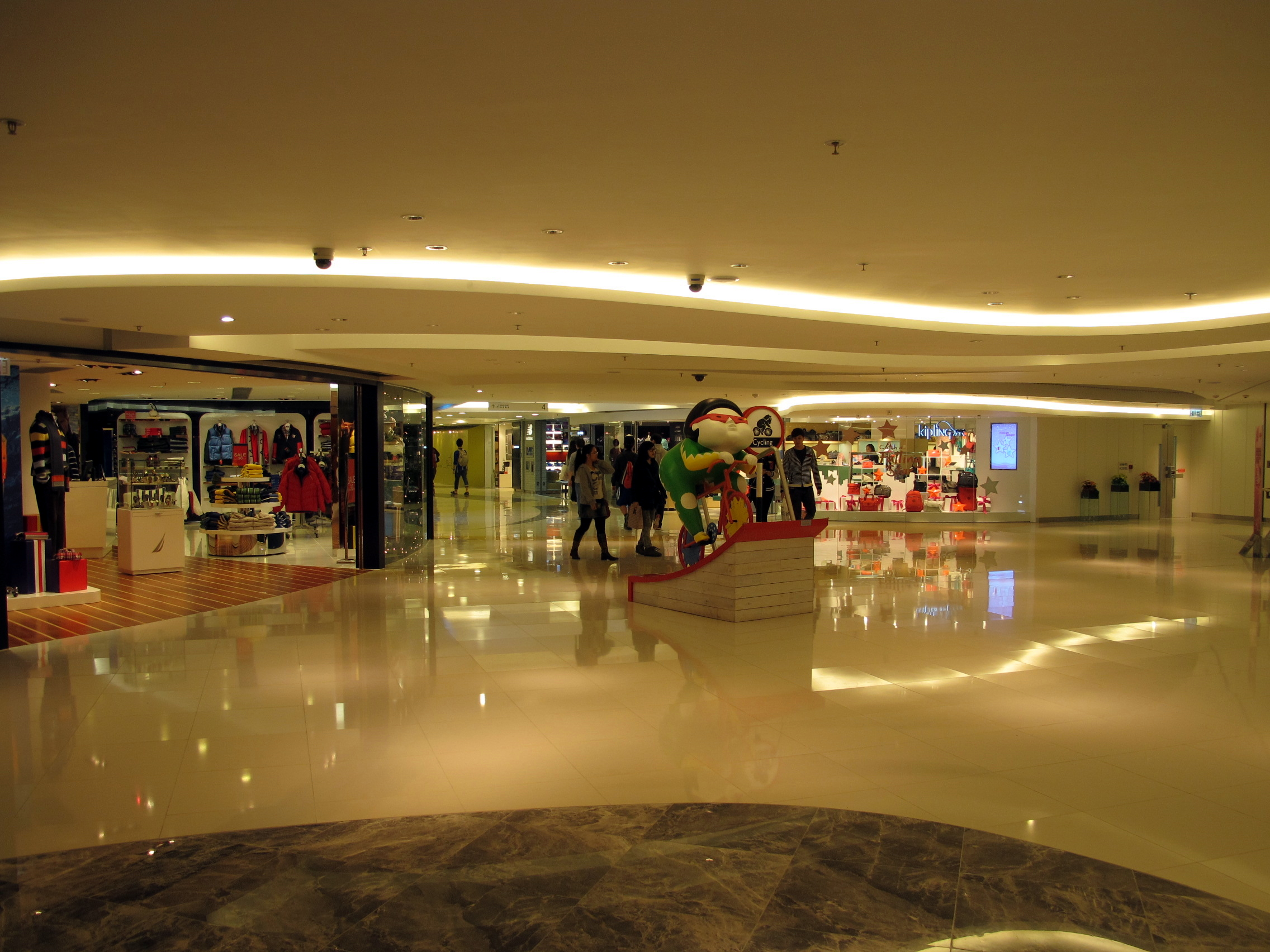 Grand Century Place Level 4 新世紀廣場4樓